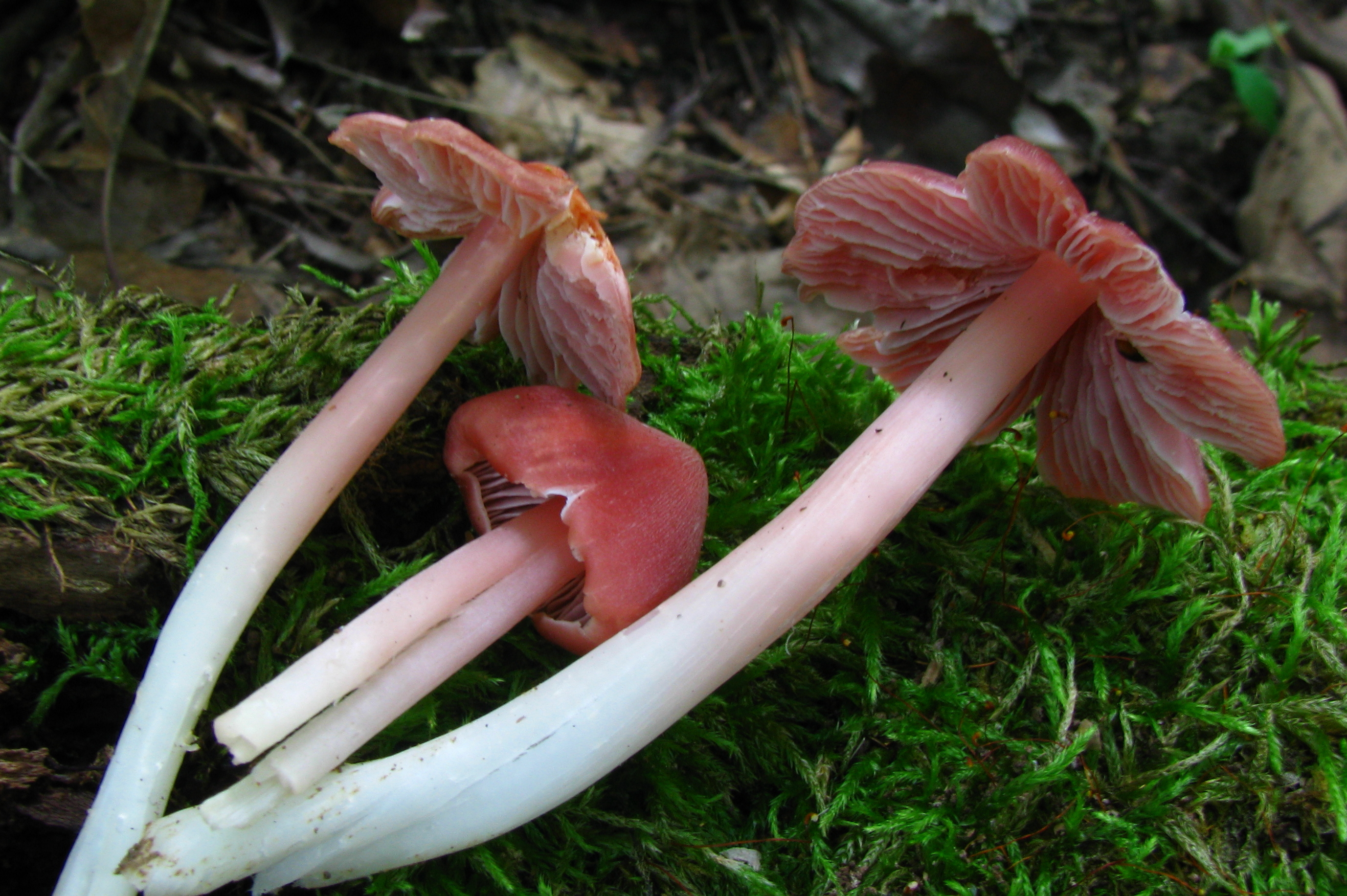 Hygrocybe calyptraeformis Location: Strouds Run State Park, Athens, Ohio, USA For more information about this, see the observation page at Mushroom Observer.